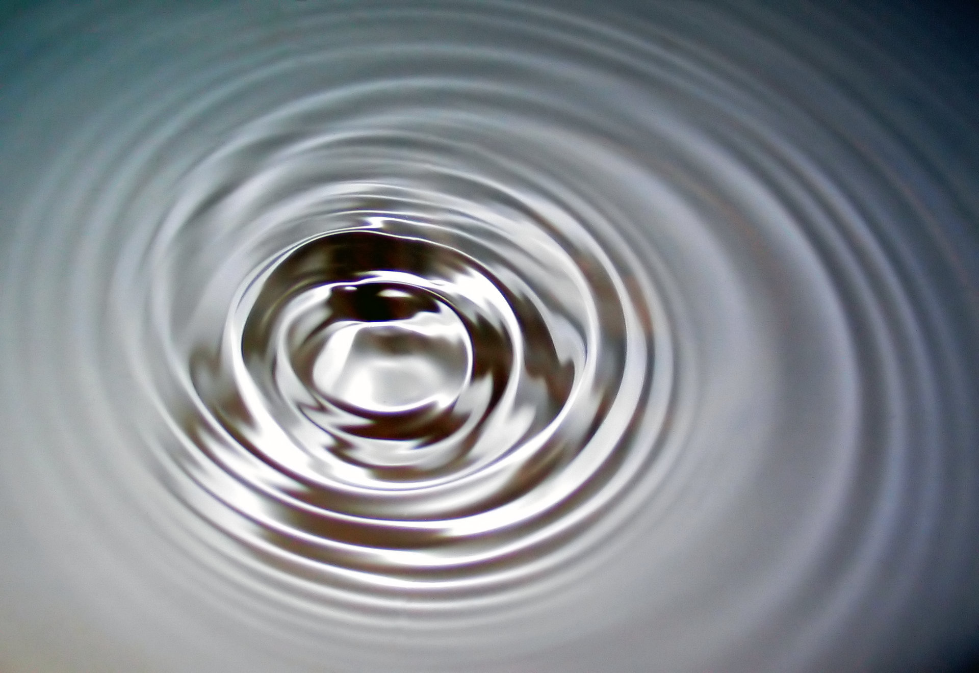 Surface waves of water: expansion of a disturbance. – It shows a realistic disturbance (caused by shortly dipping a stick into the water) and its expansion forming interfering circles of limited concentricity. The near metallic appearance of the water's surface is due to the small angle of illumination.